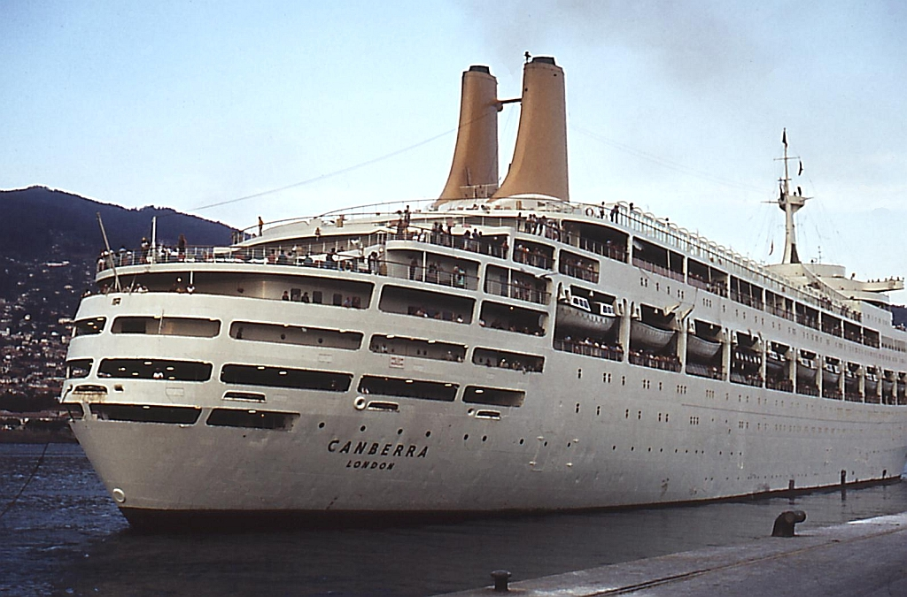 Berthing of cruise ship Canberra in the port of Funchal / Madeira - 1978